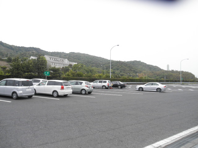 Midori P.A down line parking area